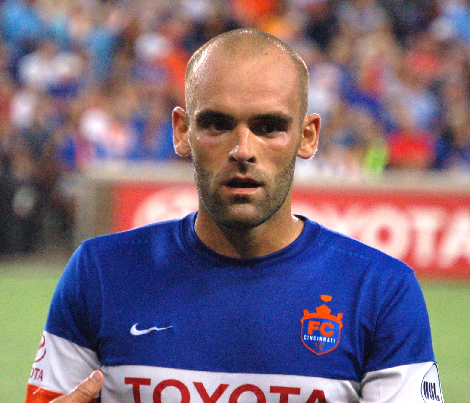 Paul Nicholson Taken during USL regular season match between FC Cincinnati and Orlando City B at Nippert Stadium in Cincinnati, USA on September 17, 2016.